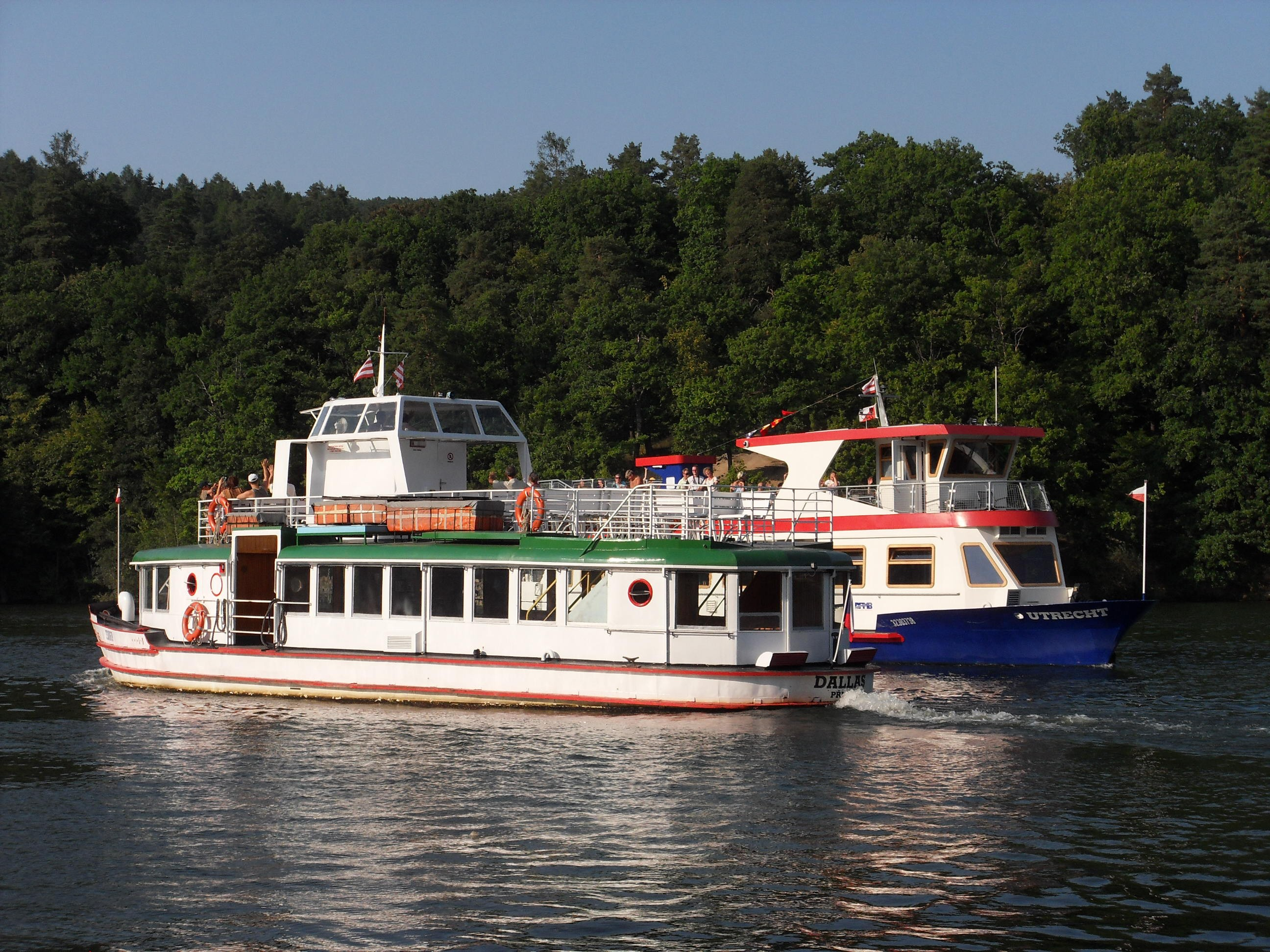 Dallas and Utrecht ships at Brno Reservoir, Brno, Czech Republic